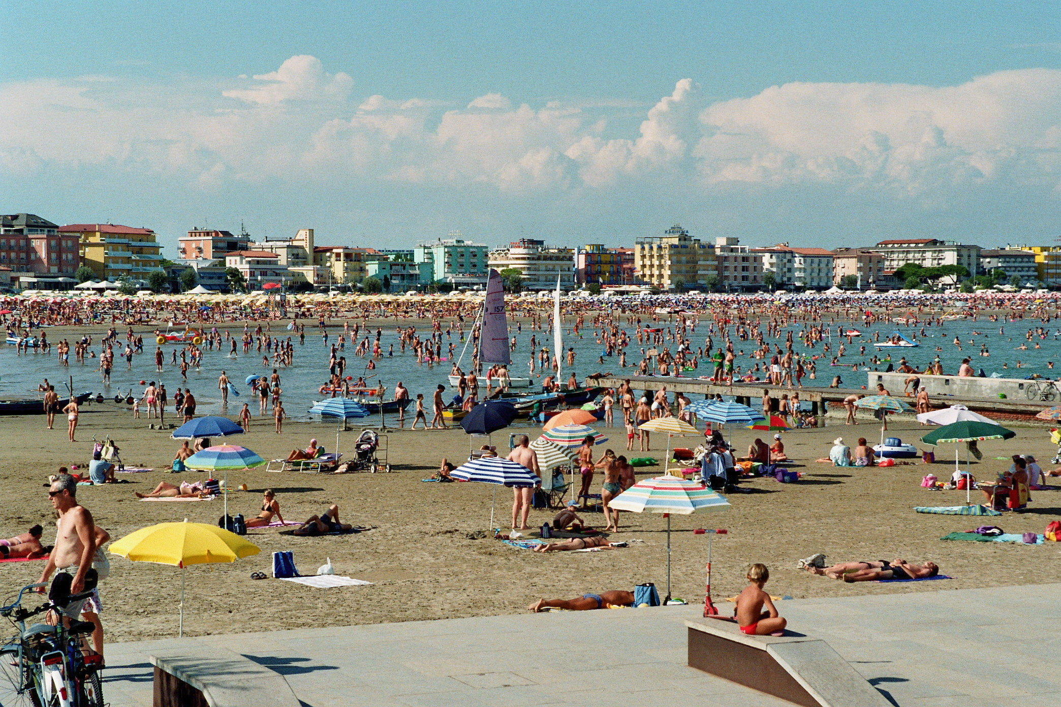 Mass tourism in Caorle (Italy)